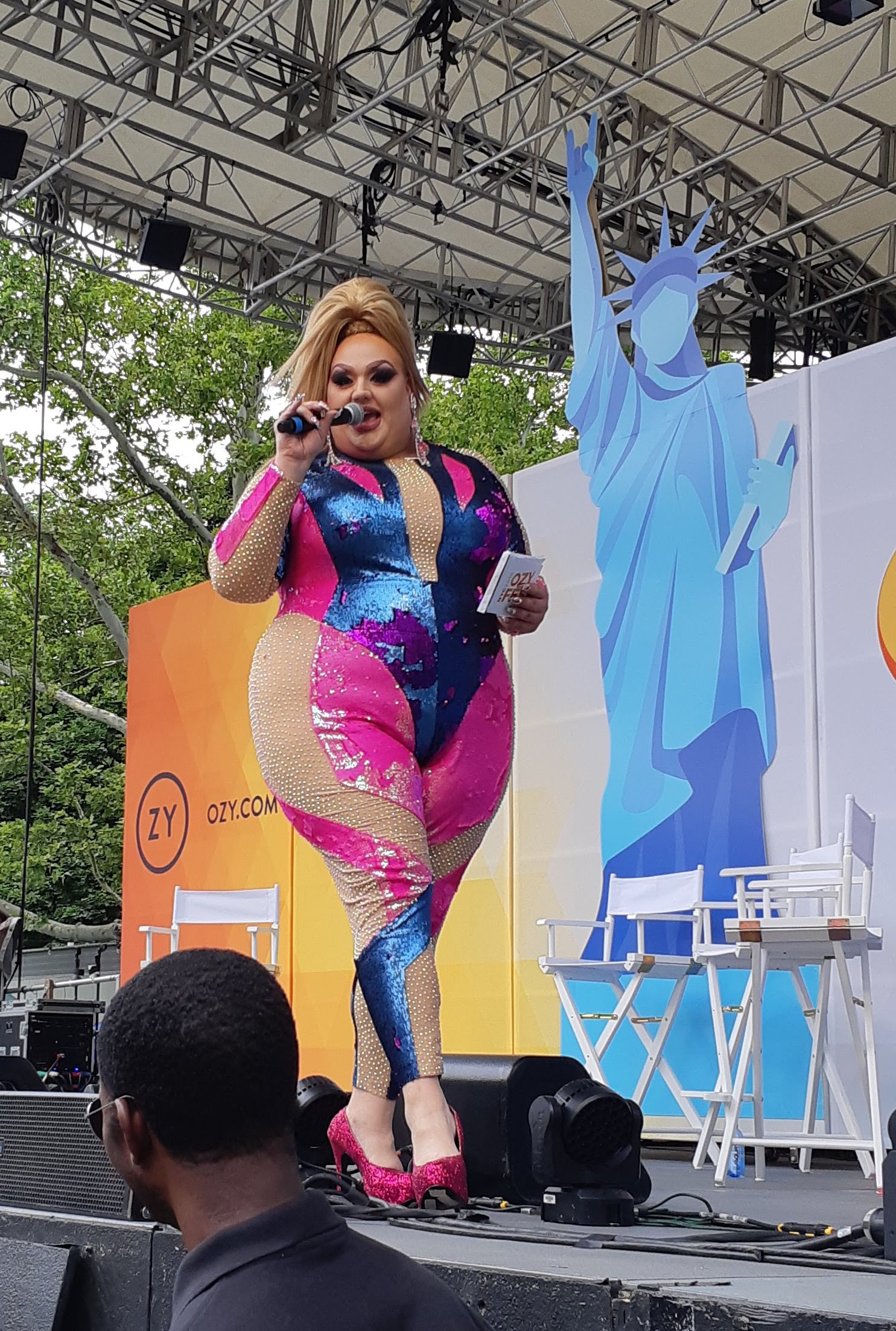 Eureka O'Hara in July 2018.